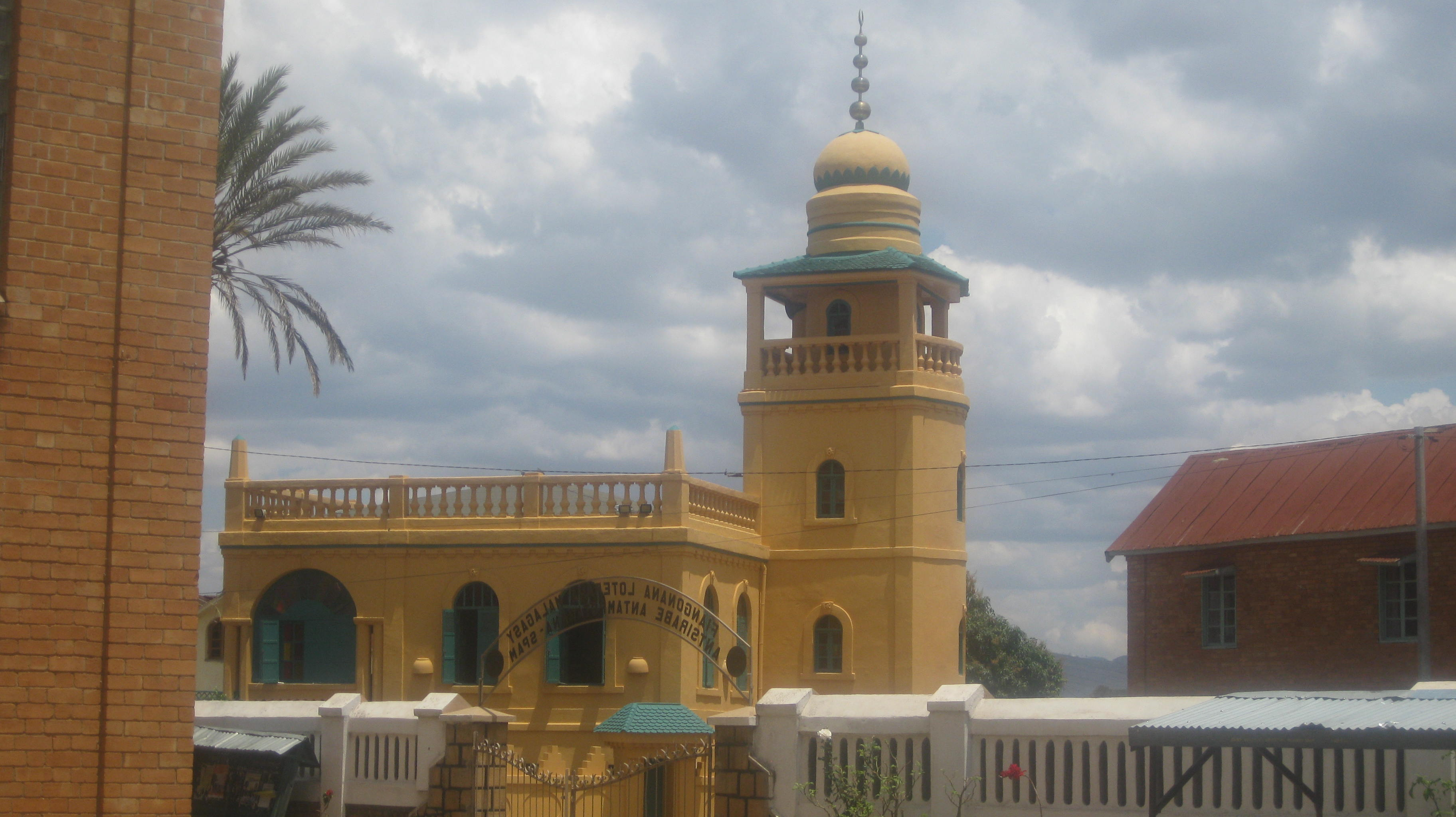 Mohammed V Mosque in Antsirabe, Madagascar.